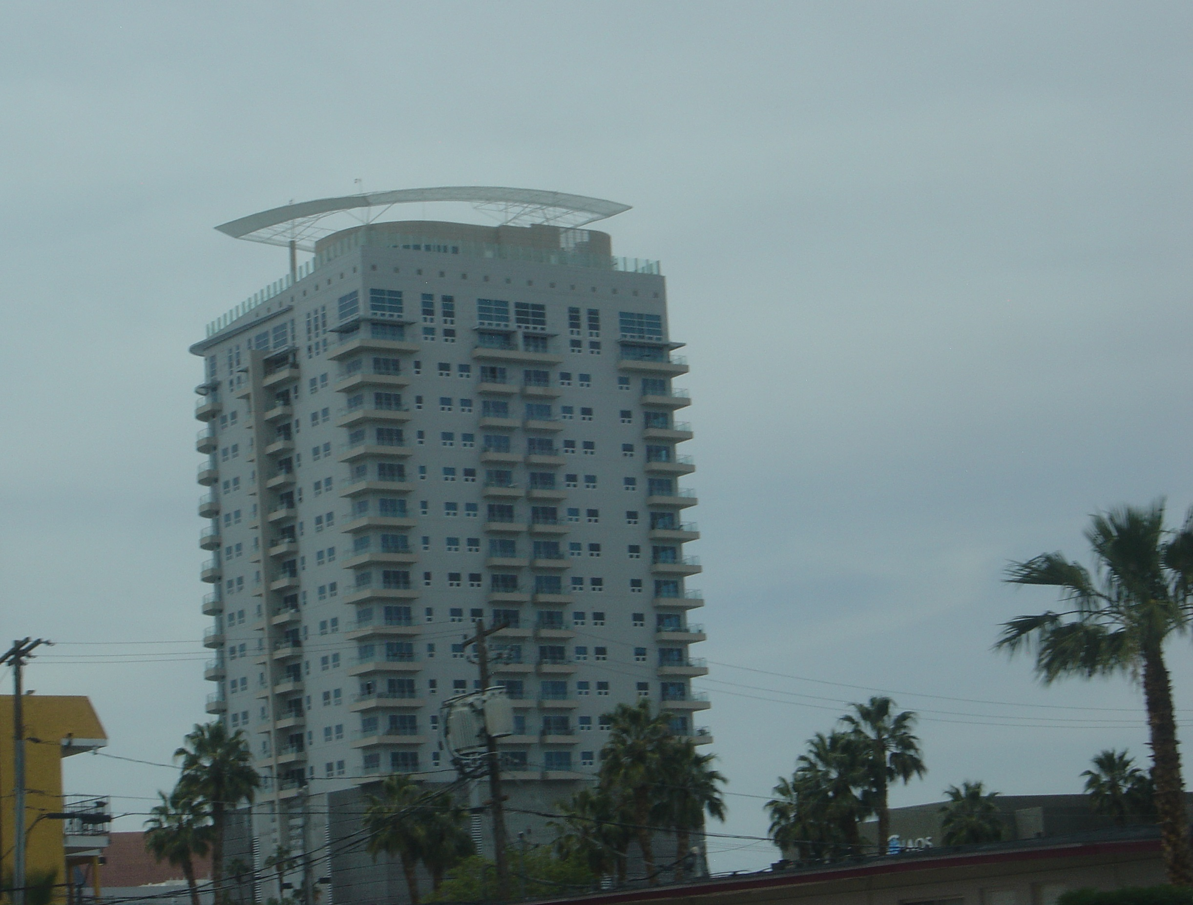 Newport Lofts condo tower in downtown Las Vegas.